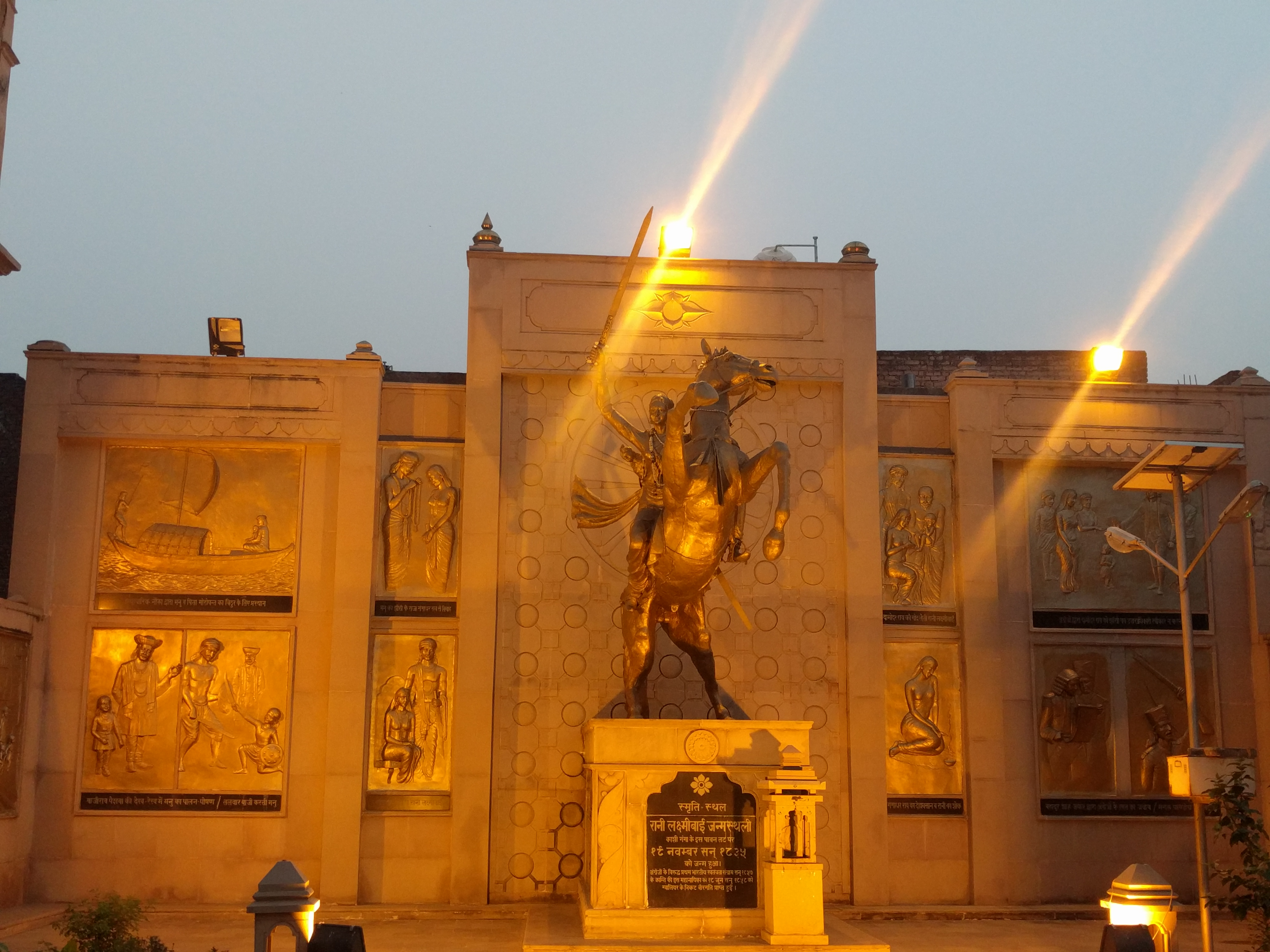 The photo depicts the bravery of Rani Lakshmibai and its her birth place